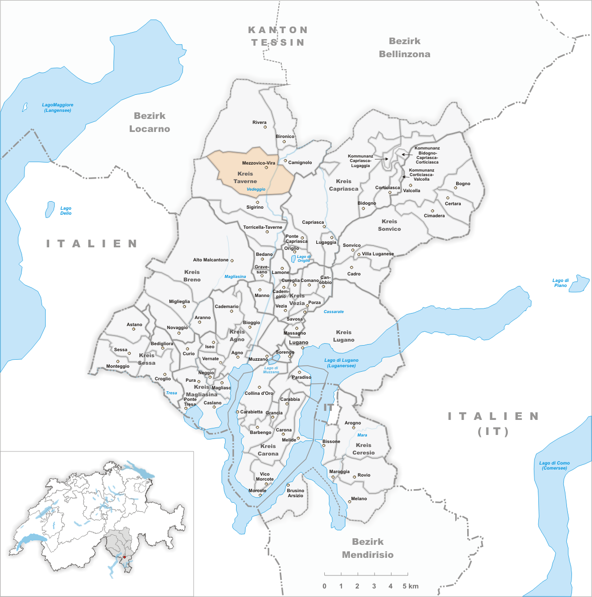 Municipality Mezzovico-Vira